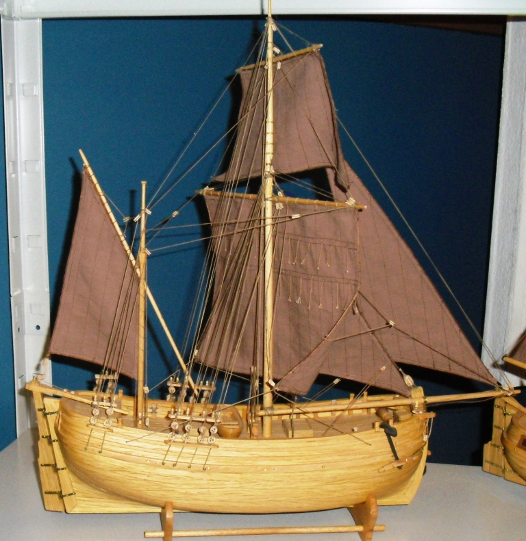 Schiffahrtsmuseum Nordfriesland, Modell einer historischen Heringsbuise